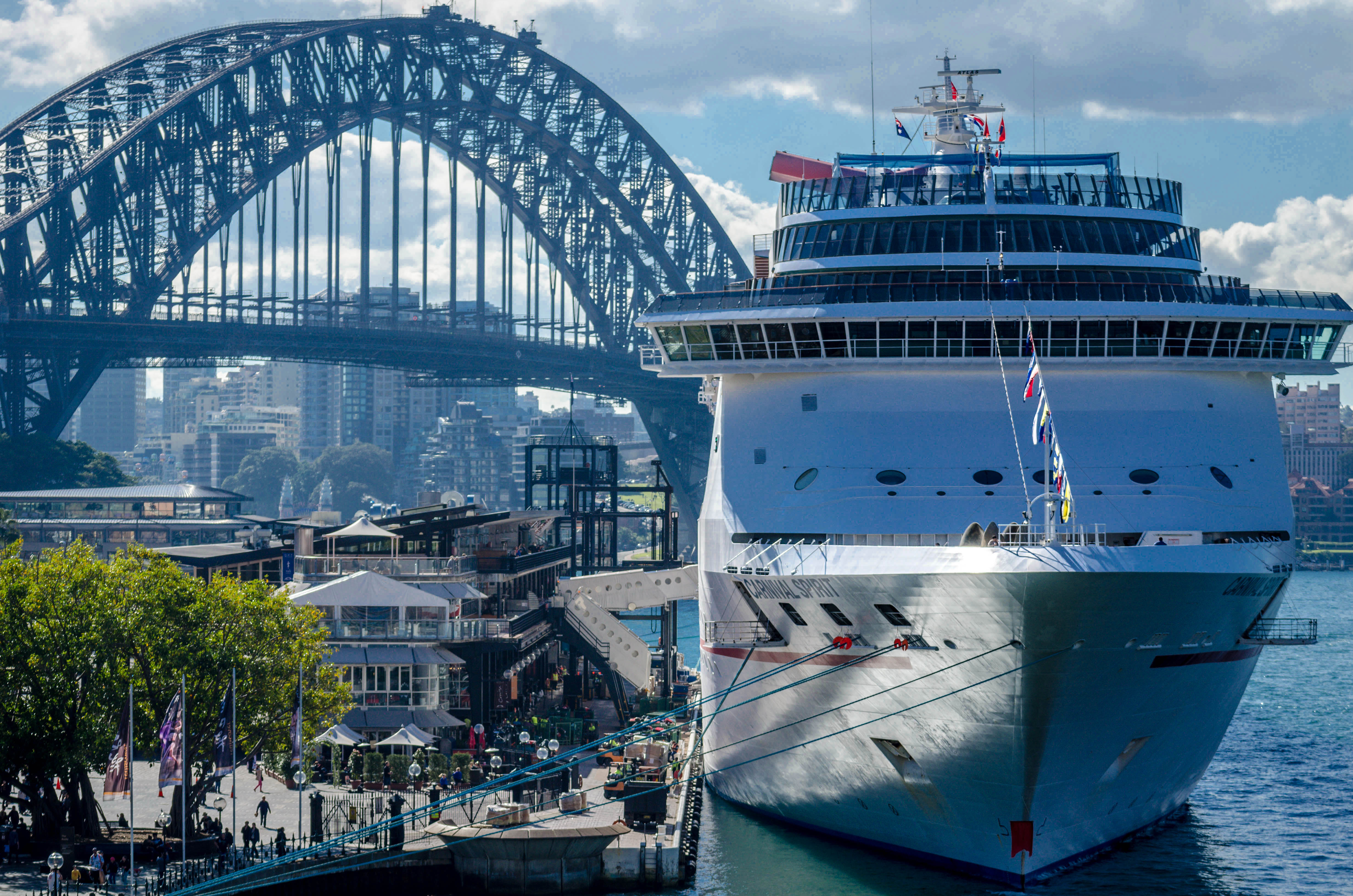 Carnival Spirit at the Overseas Passenger Terminal, Sydney Cove, Sydney